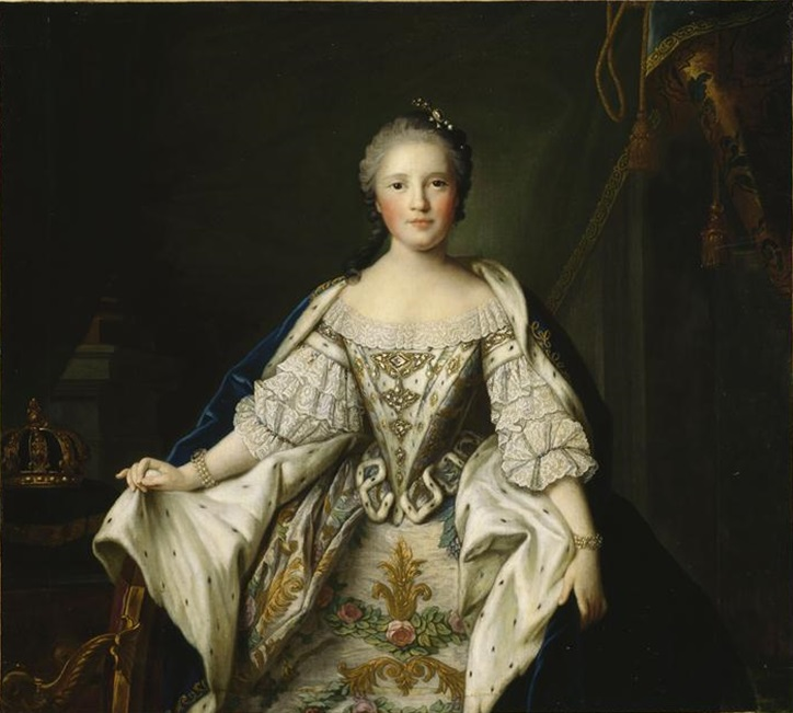 Portrait of Maria Josepha of Saxony, Dauphine of France (1731-1767)